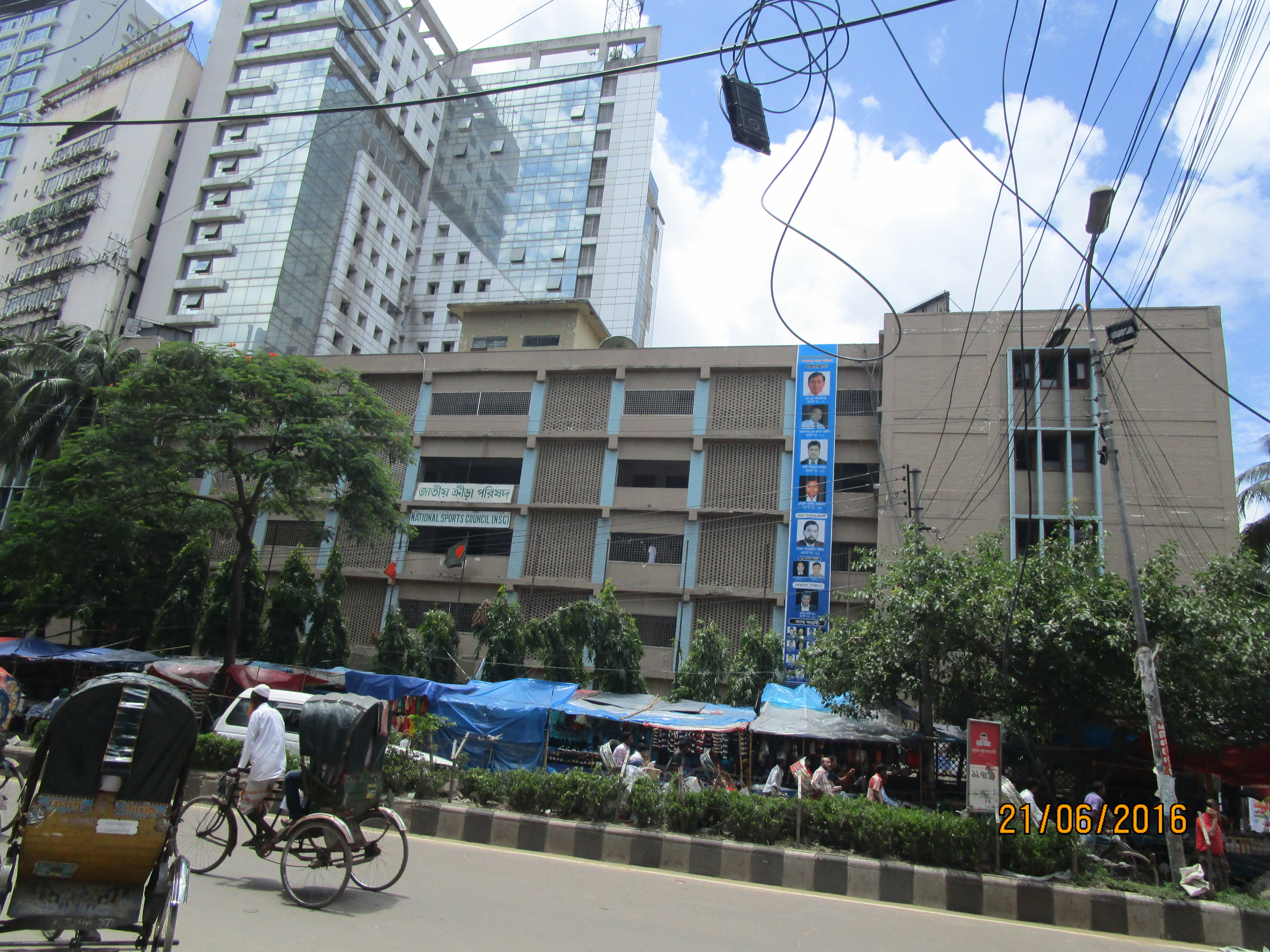 Bangladesh National Sports Council at dainik Bangla More